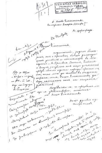 A letter written by Pere Toshev after being released from exile to the Bulgarian Exarch Josif I in which he requests to be reappointed a teacher: "Your Beatitude, The undersigned, by birth a Bulgarian from the town of Prilep, a former teacher and inspector in Macedonia - in Prilep, Skopje, Bitola and Salonika, separated from that position some years ago due to my arrest etc. etc.